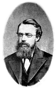 Jan Stanisław Franciszek Czerski - was a Polish paleontologist, osteologist, geologist, geographer and explorer of Siberia. He was exiled to Transbaikalia for participating in the January Uprising of 1863